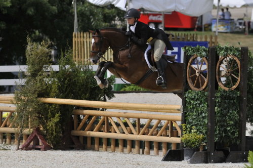 Alicia Heberle and Who's The Man at pony finals '08